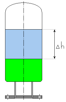 desuign of piston pump ir bottle